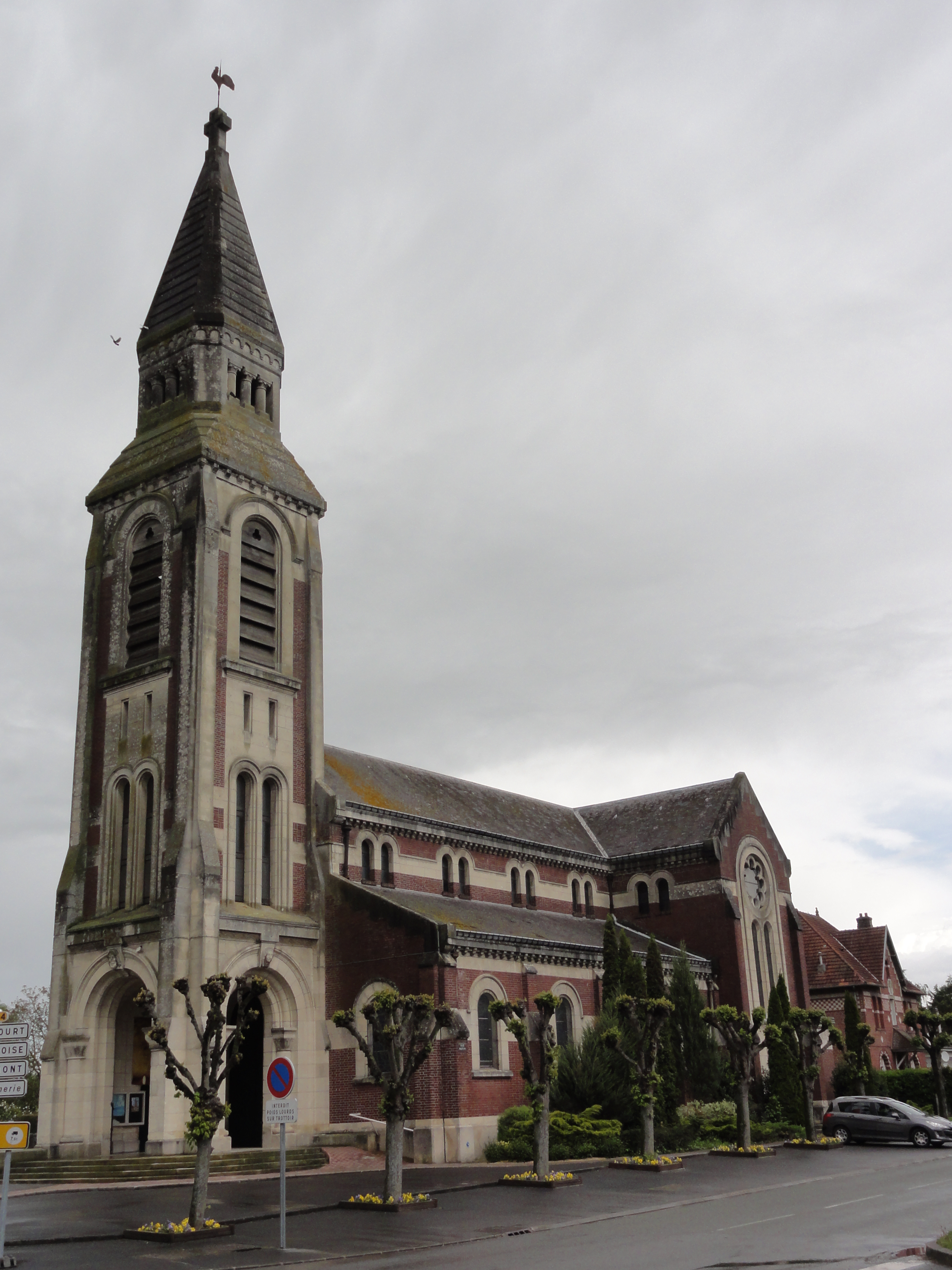 Moÿ-de-l'Aisne (Aisne) église